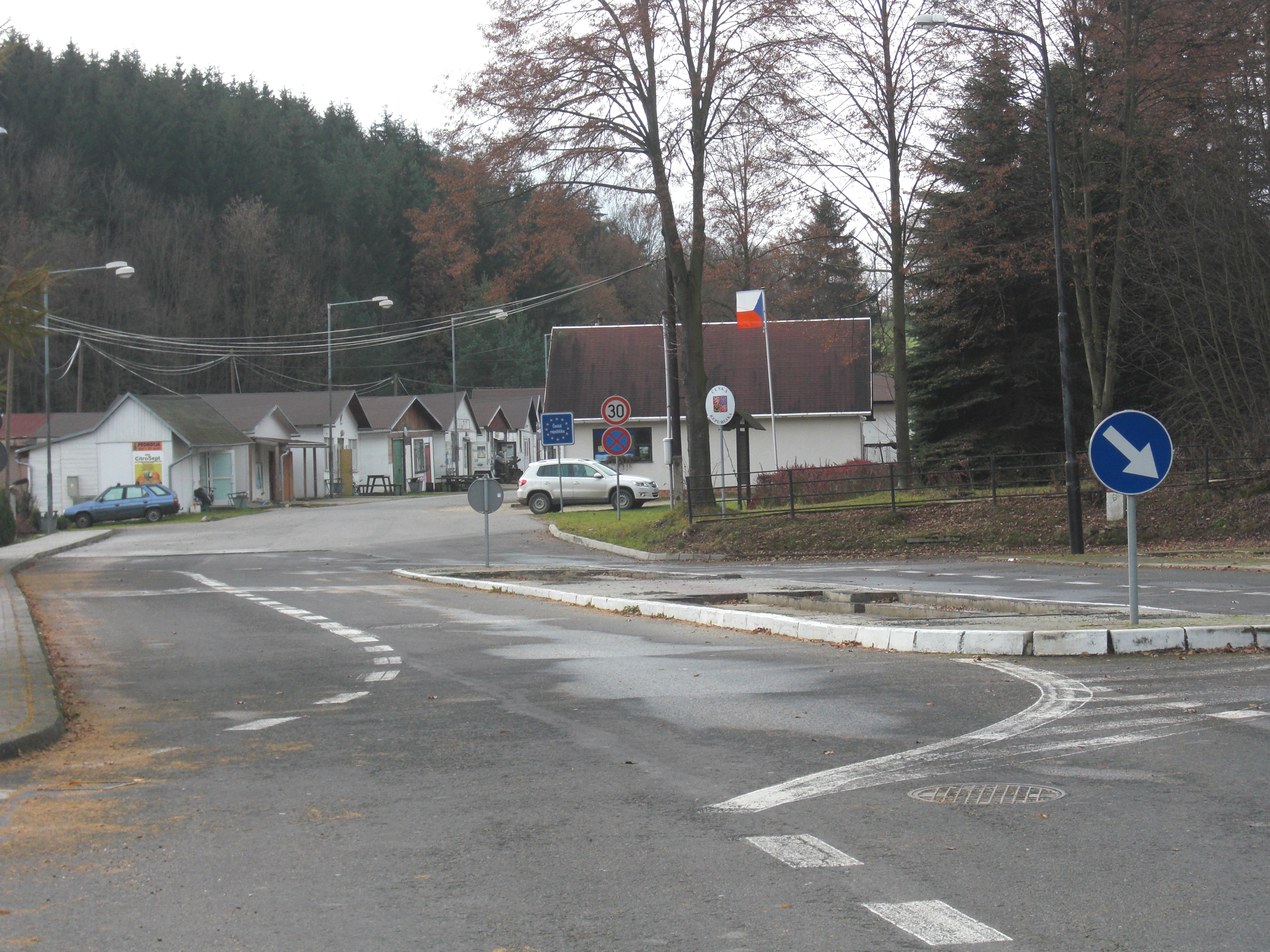 Border